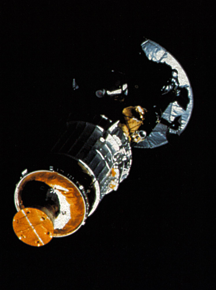 NASA's Galileo spacecraft and it's attached Inertial Upper Stage booster seen from a distance after deployment from space shuttle Atlantis.